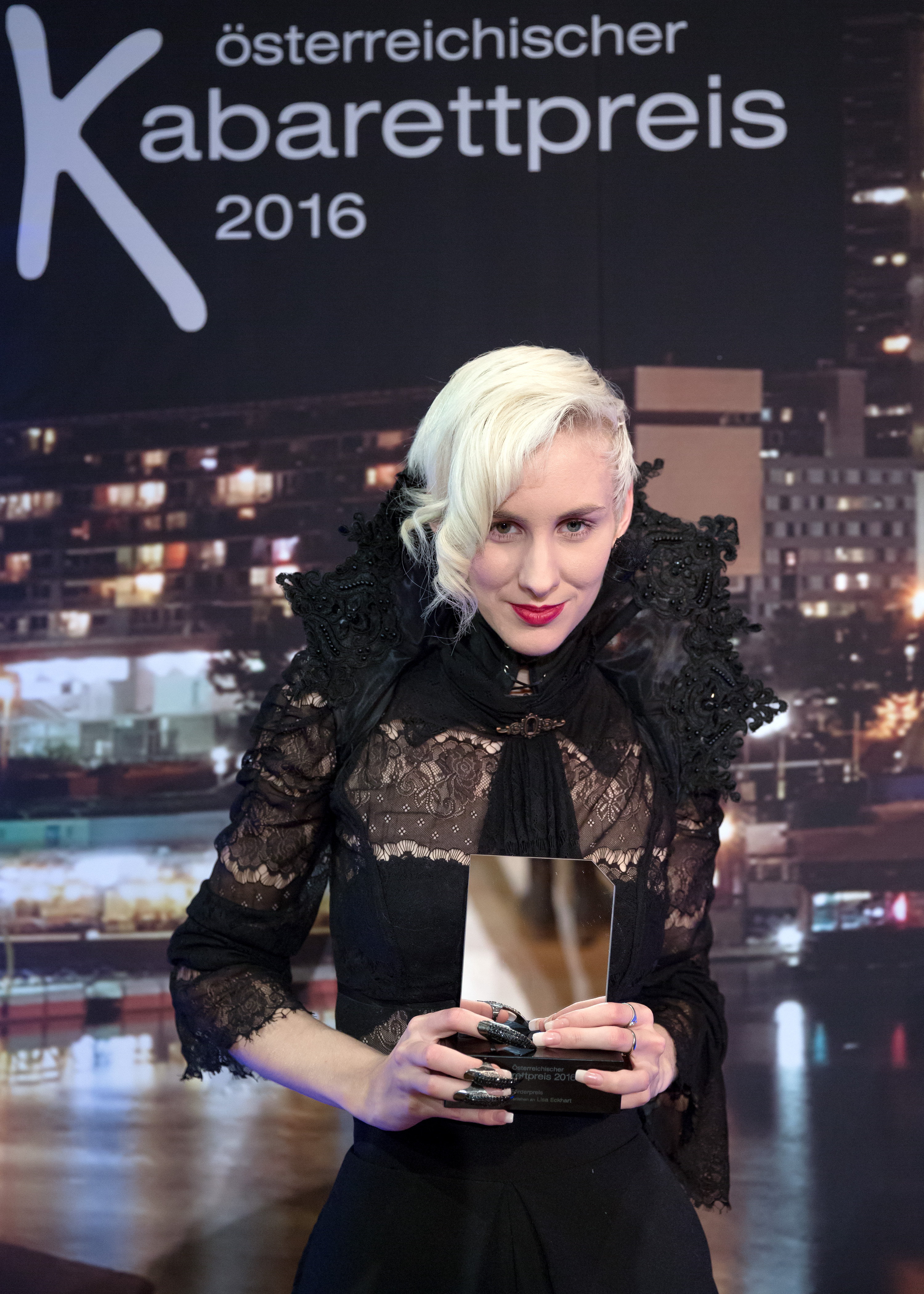 Lisa Eckhart, Austrian Cabaret Award 2016 at Urania in Vienna, Austria.